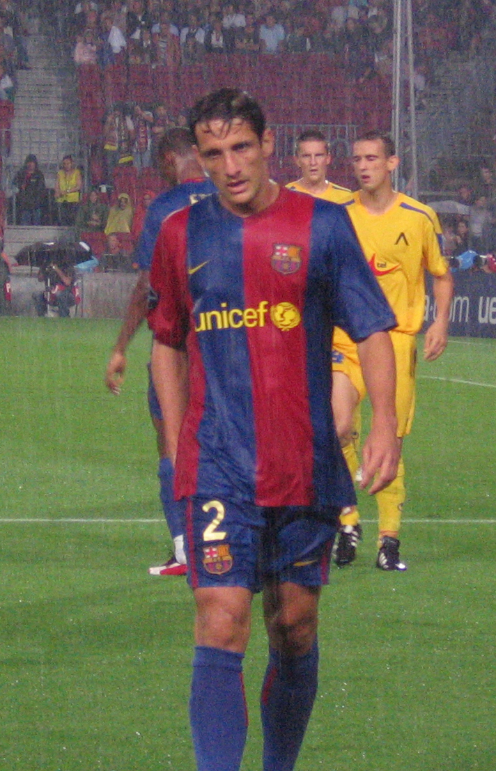 Futbol Club Barcelona's player Juliano Belletti during the match FC Barcelona-PFC Levski Sofia.